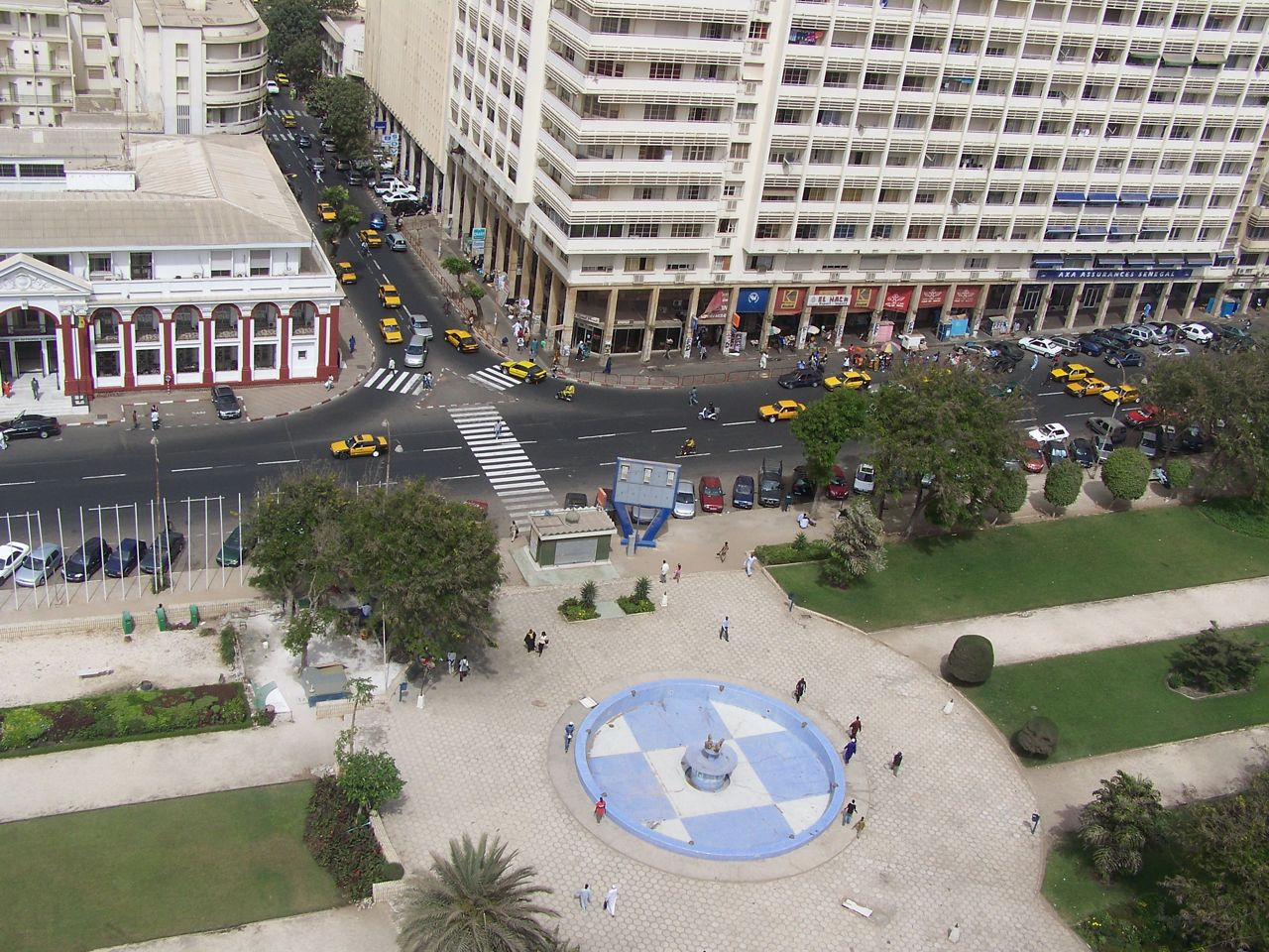 Place de l'independance dakar ( senegal )